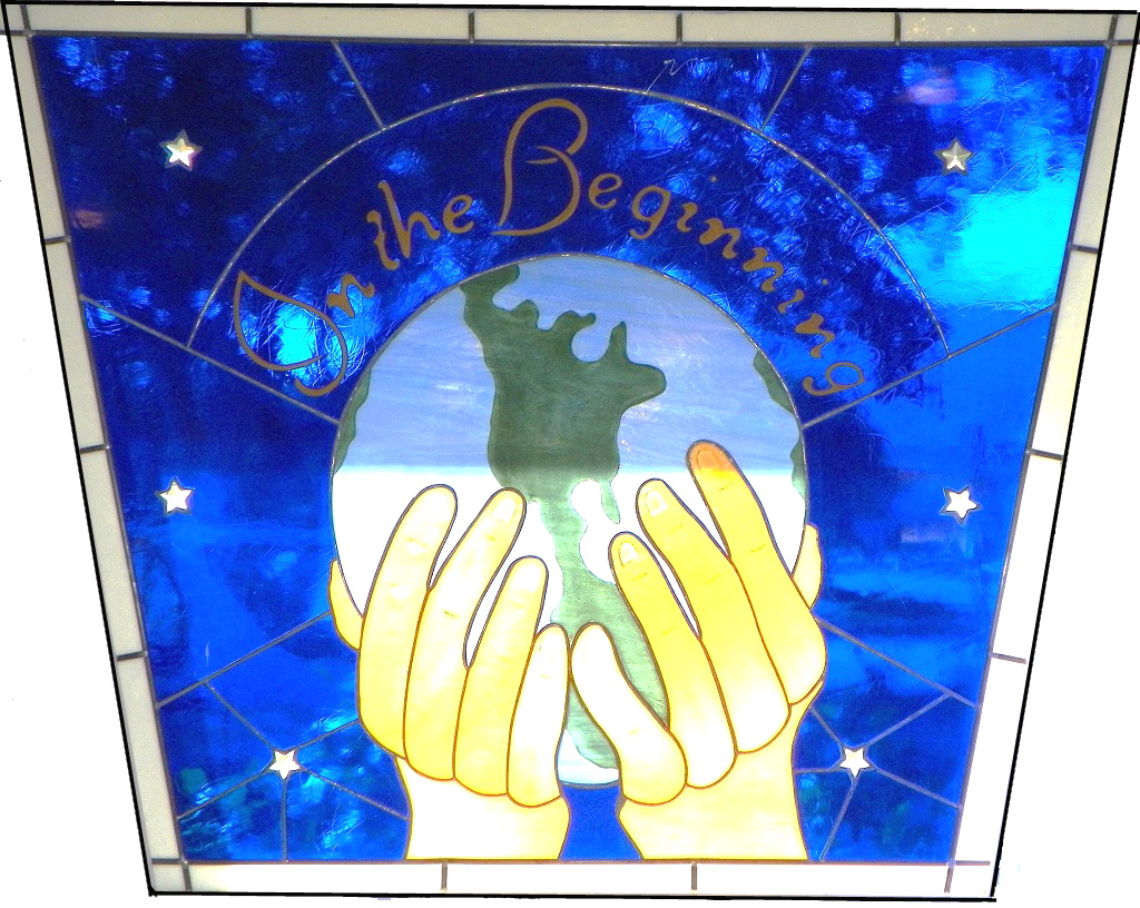 He holds the whole world in his hands.